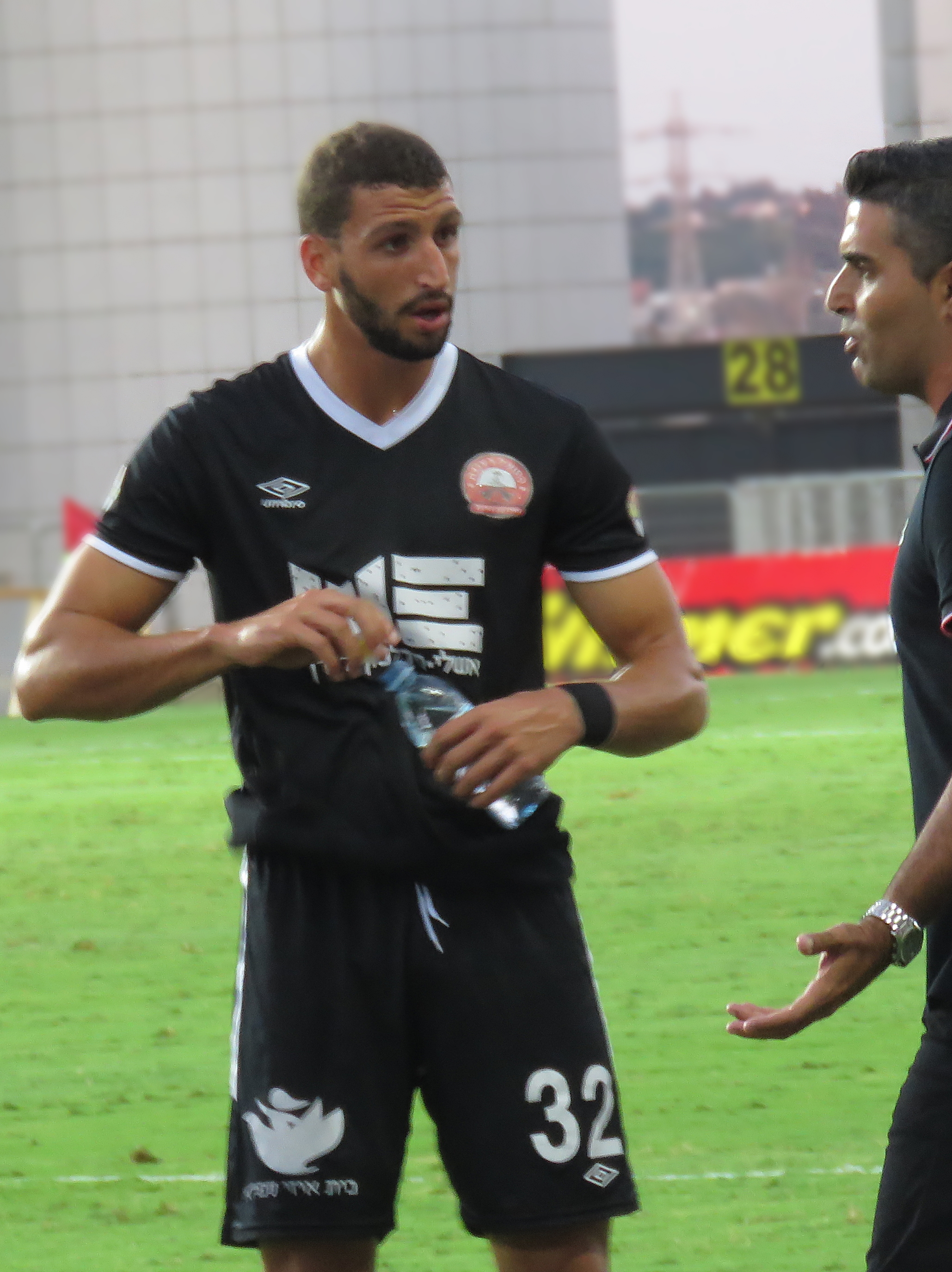 Hapoel Ra'anana vs. Maccabi Haifa F.C., 3 October, 2015